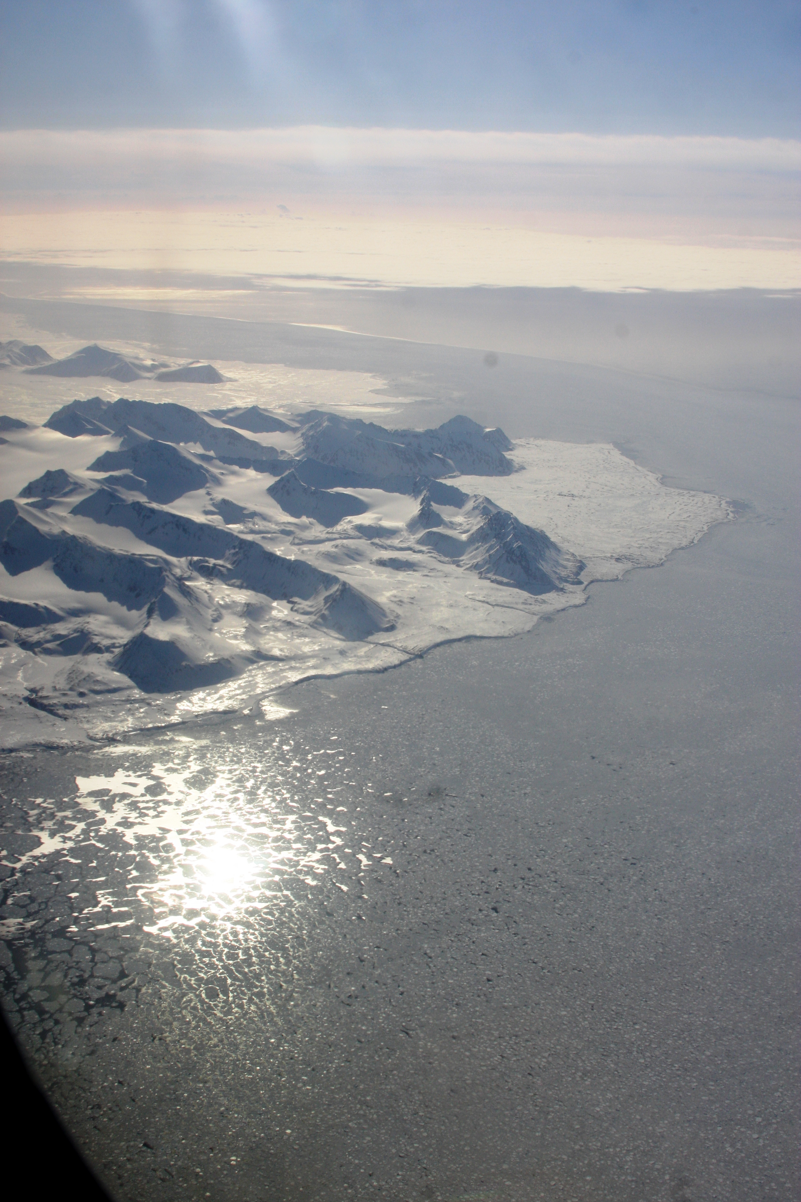 Bellsund (Bell Sound) with Kapp Lyell (Cape Lyell) and Wedel Jarlsberg Land to the left. Spitsbergen. Late april, 2011.